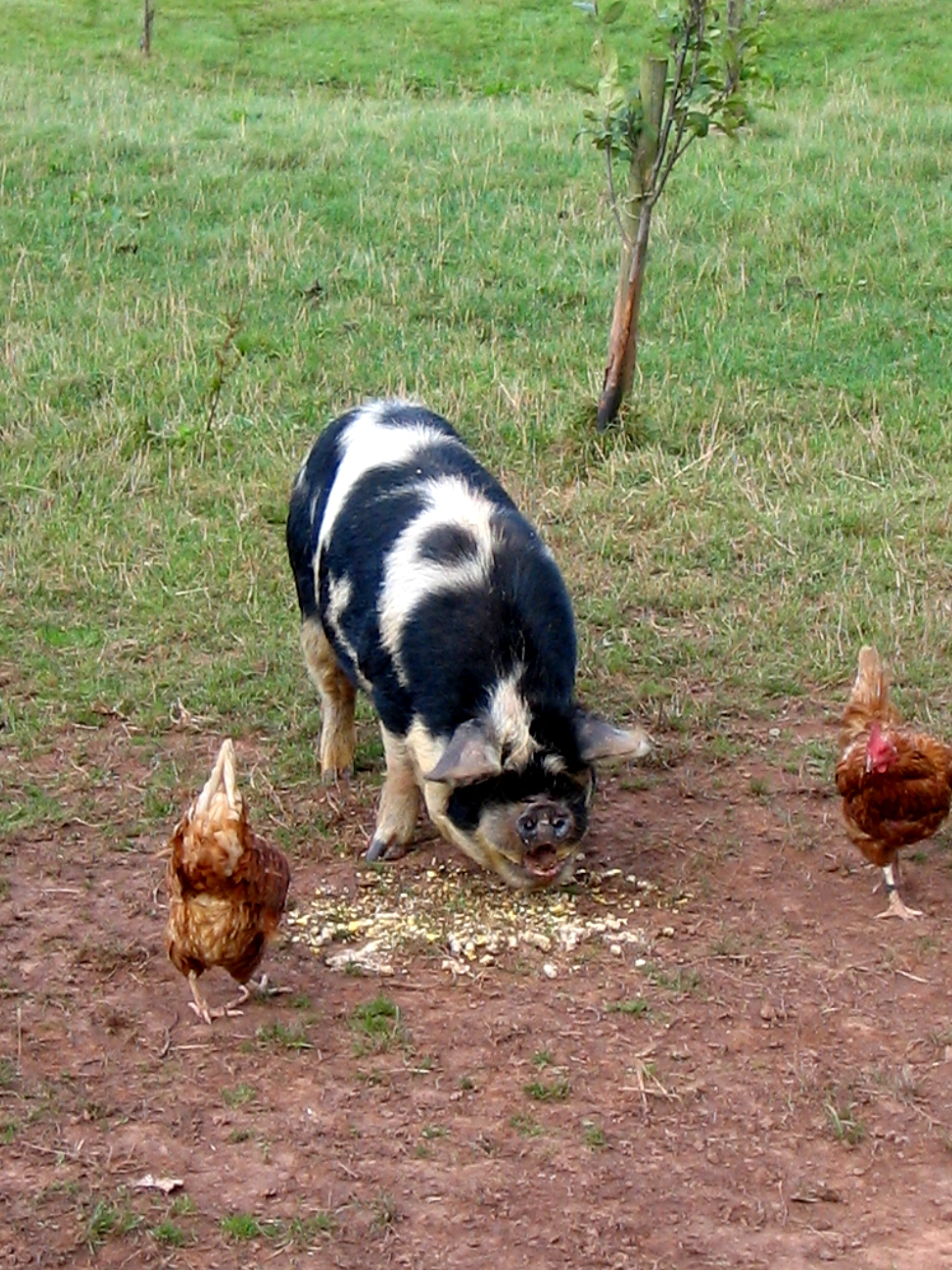 Free range chickens and a Kune Kune pig feeding